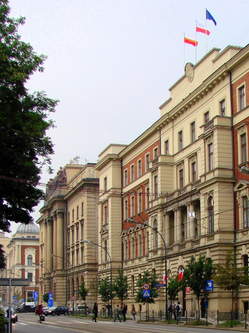 Lesser Poland Voivodeship Office and National Bank of Poland on Basztowa Street in central Kraków